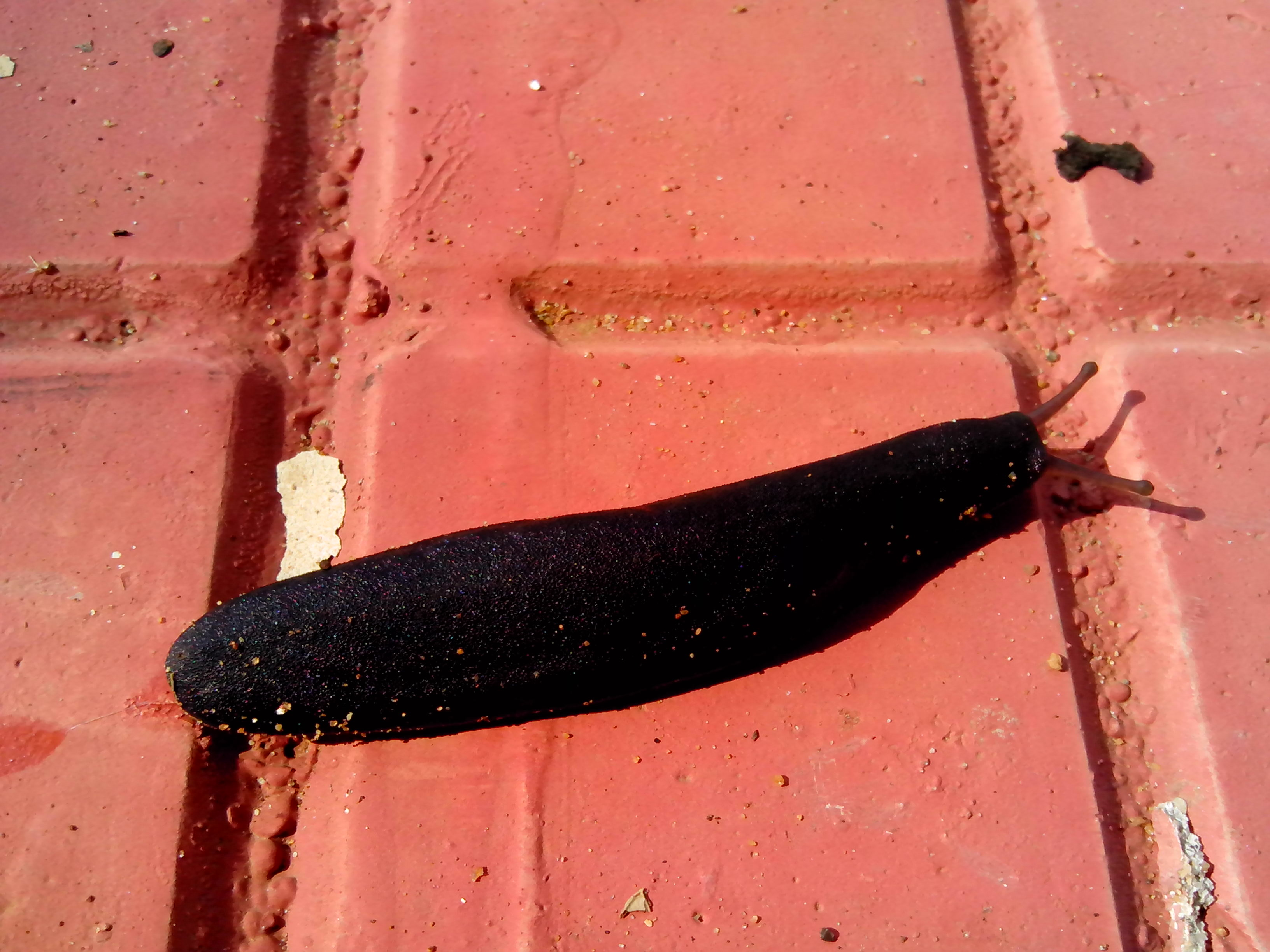 A black slug